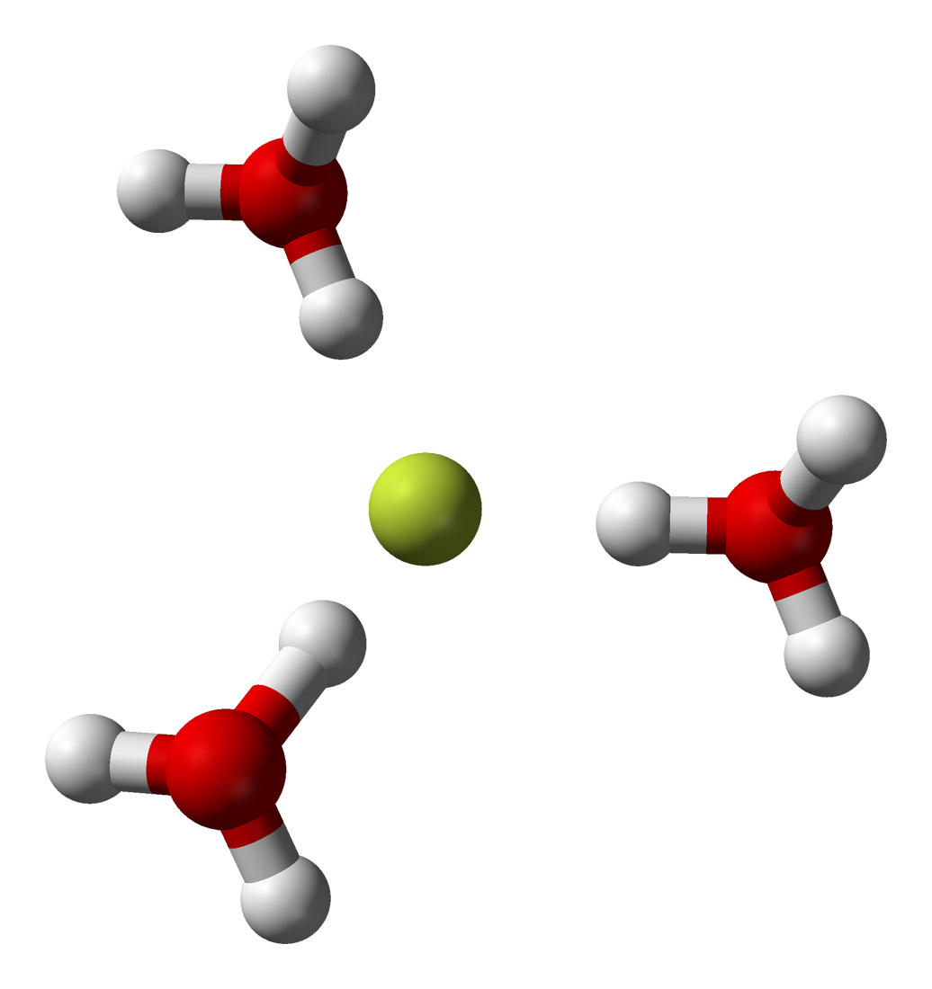 Ball-and-stick model of the coordination of a fluoride ion, F−, by three hydronium ions, H3O+, in the crystal structure of hydrogen fluoride hydrate, HF·H2O.